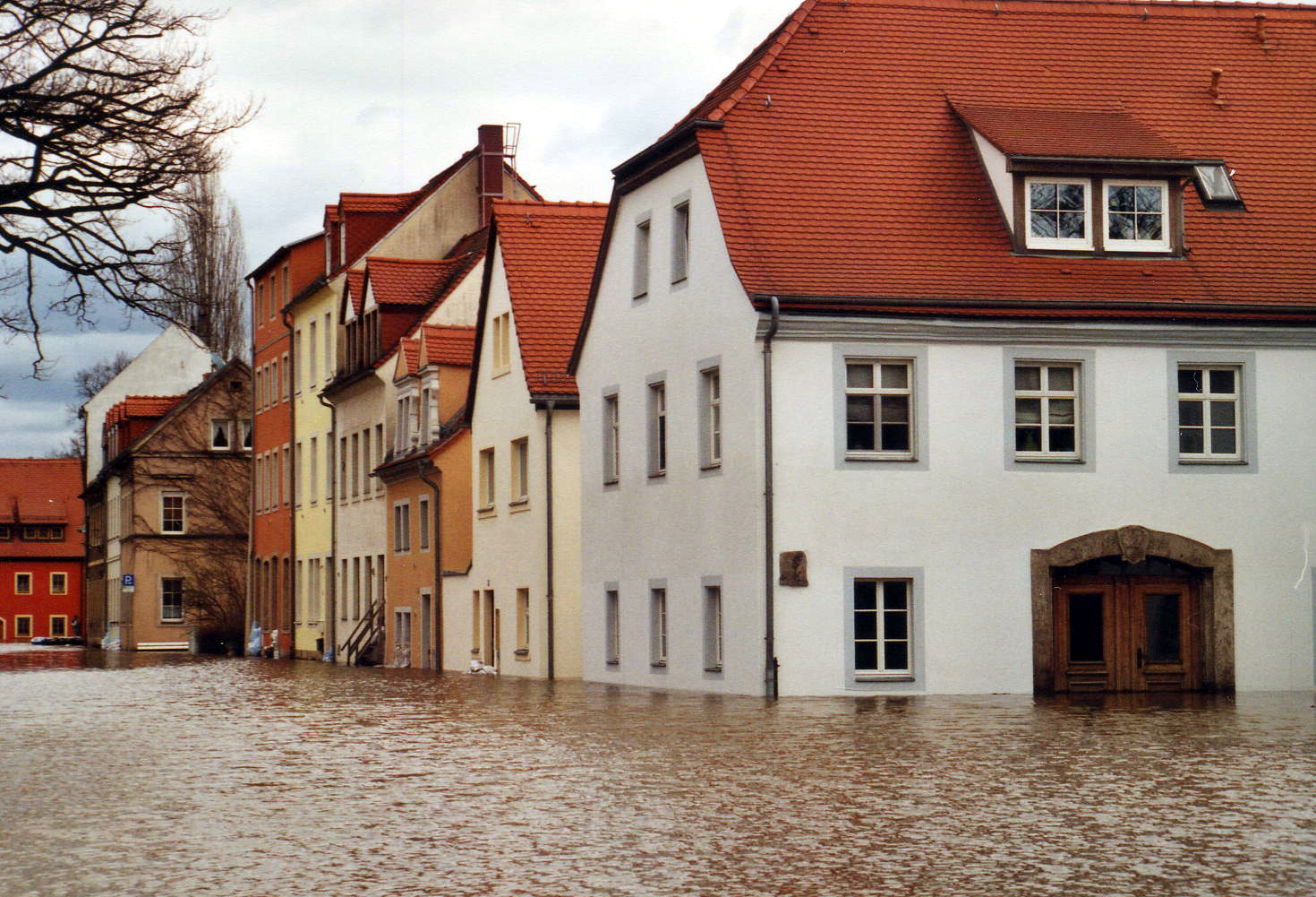 This image shows the Steinplatz in Pirna during the spring-time-flood 2006 of the Elbe.